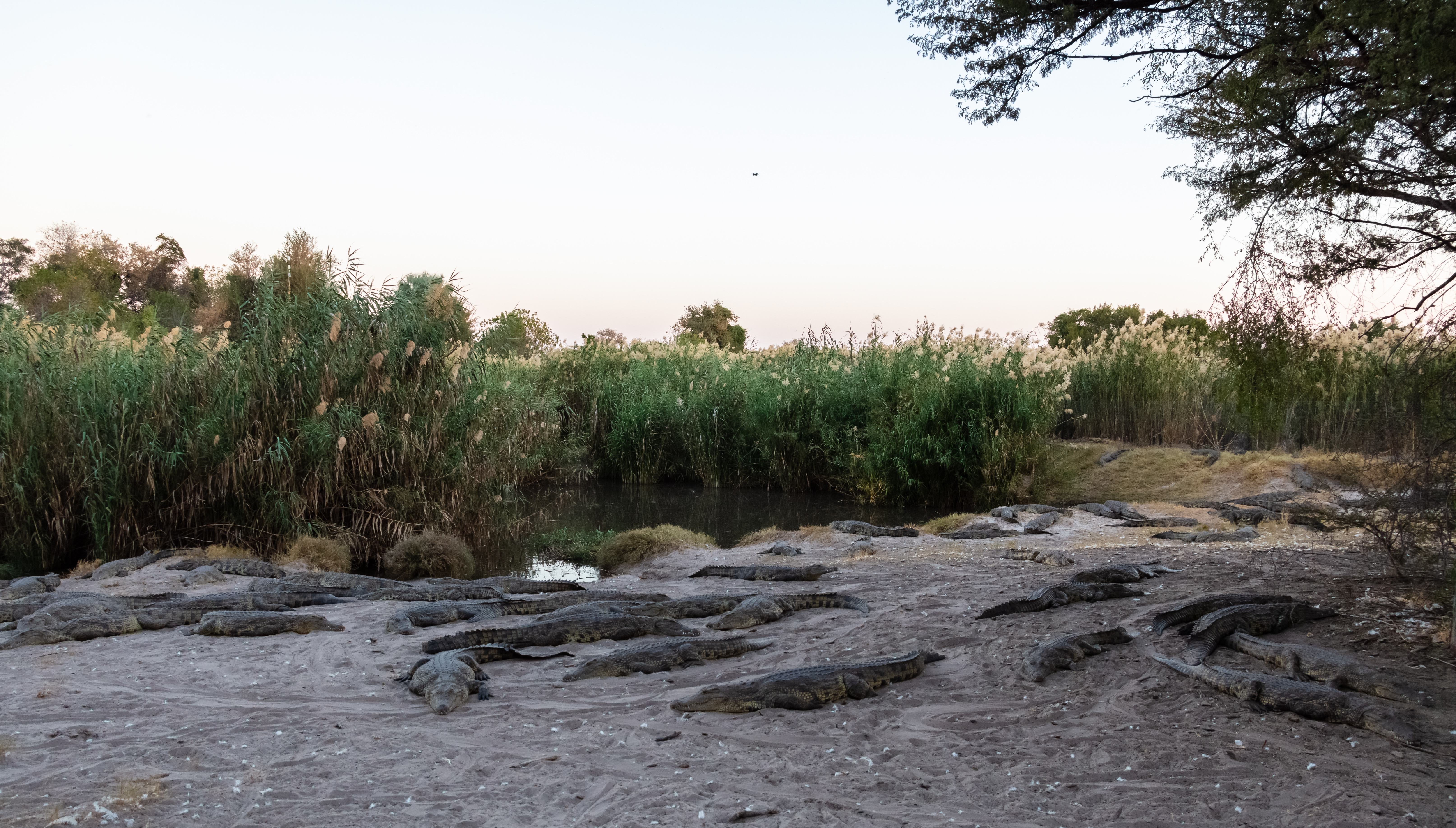 Crocodrile Farm, Maun, Botswana